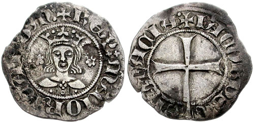 Spain, Mallorca. Jaume III. 1324-1344. AR Dobler (21mm, 1.45 gm, 12h). +IACOB DEI GRACIA•, Latin cross +REX MAIORICARVM•, crowned facing bust flanked by rosettes; cross on breast. ME 1926; Burgos 1392. VF, ragged edge, toned. Jaime III was expelled from the island of Mallorca in 1343 by the Aragonese. In 1349 he launched an invasion to reclaim his throne, but fell in battle.